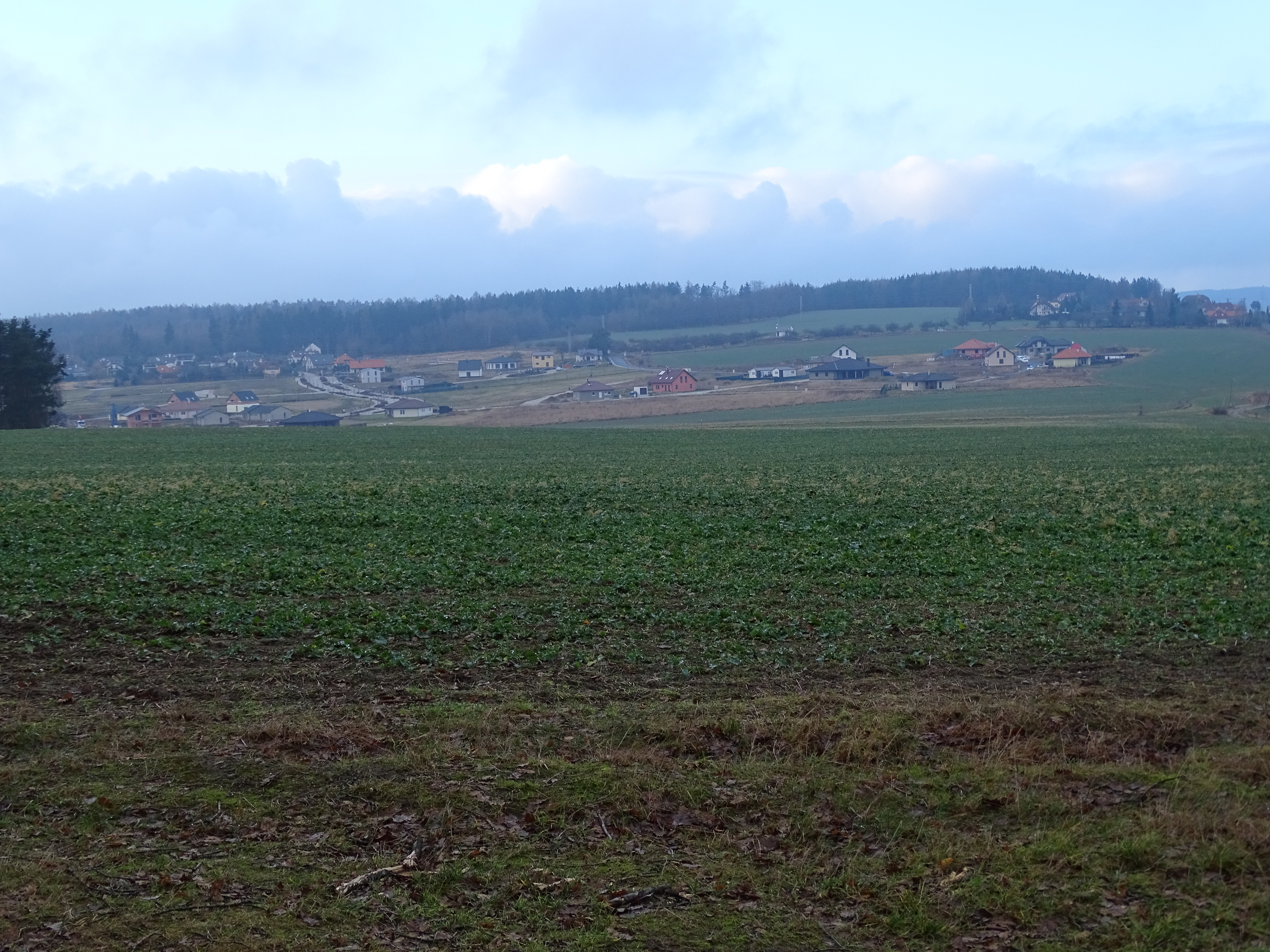 Zahořany, Prague-West District, Nová Ves pod Pleší, Příbram District, Central Bohemian Region, Czech Republic.